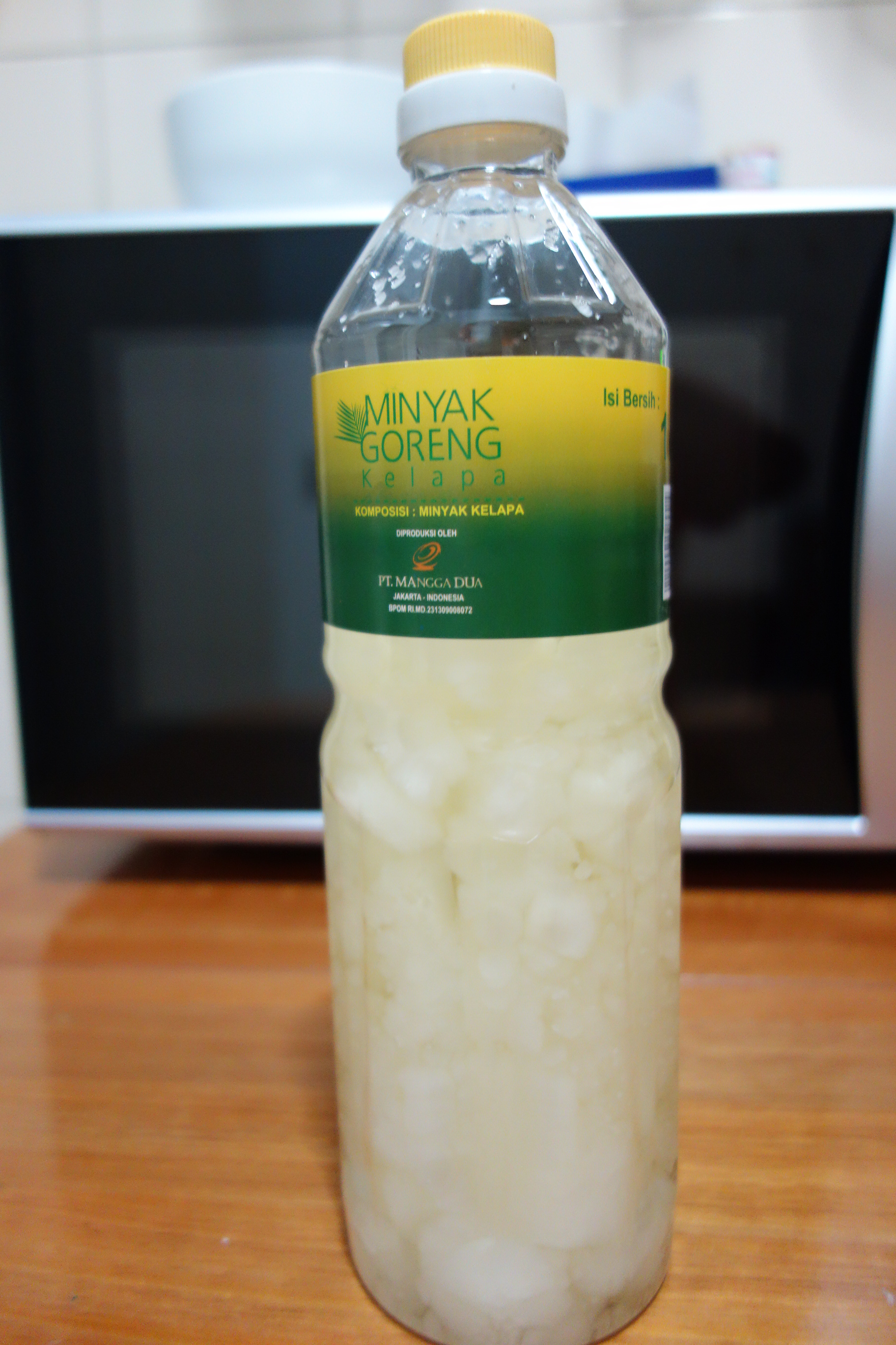 A bottle of coconut oil produced by an Indonesian company, Jakarta